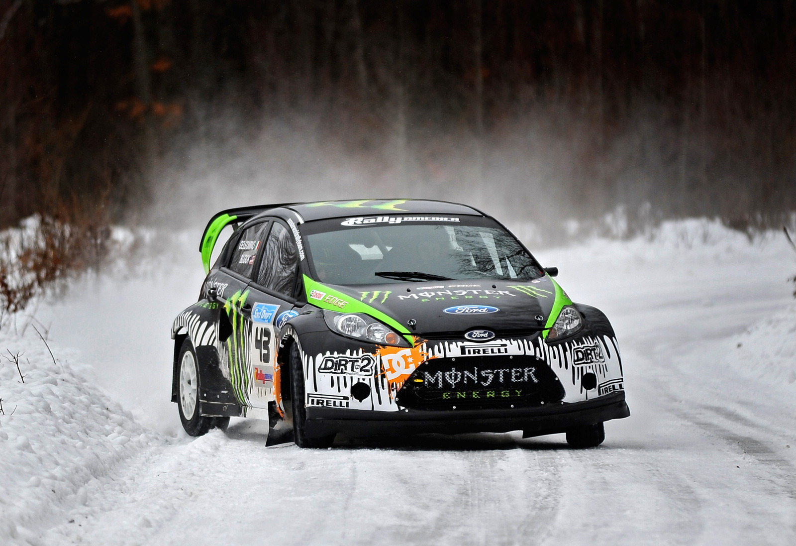 Jan. 26, 2010; Gladwin, MI, USA; Rally racer Ken Block and co-driver Alex Gelsomino during a private test on a county road in northern Michigan. Mandatory Credit: Mark J. Rebilas